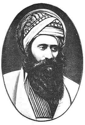 Yosef Chaim of Baghdad, the author of Ben Ish Hai ("Son of Man (who) Lives")